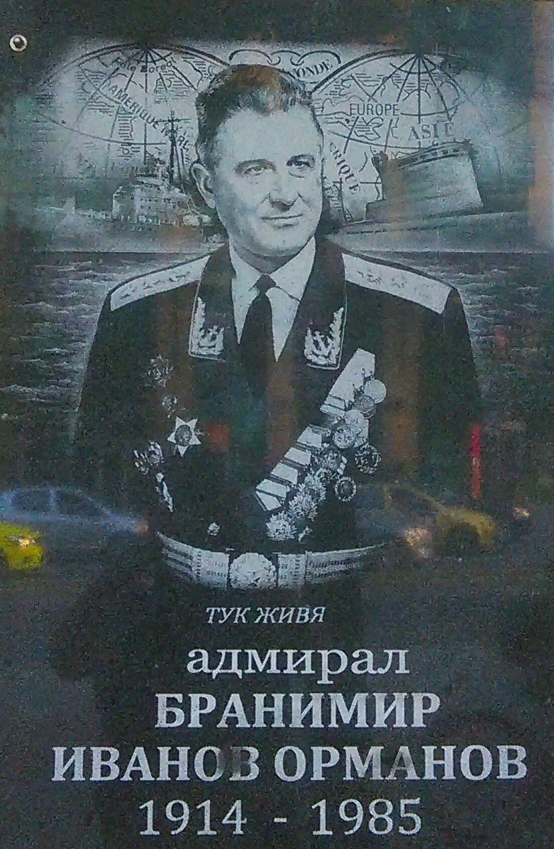 A memorial plaque depicting bulgarian admiral Branimir Ormanov before his last home in Varna